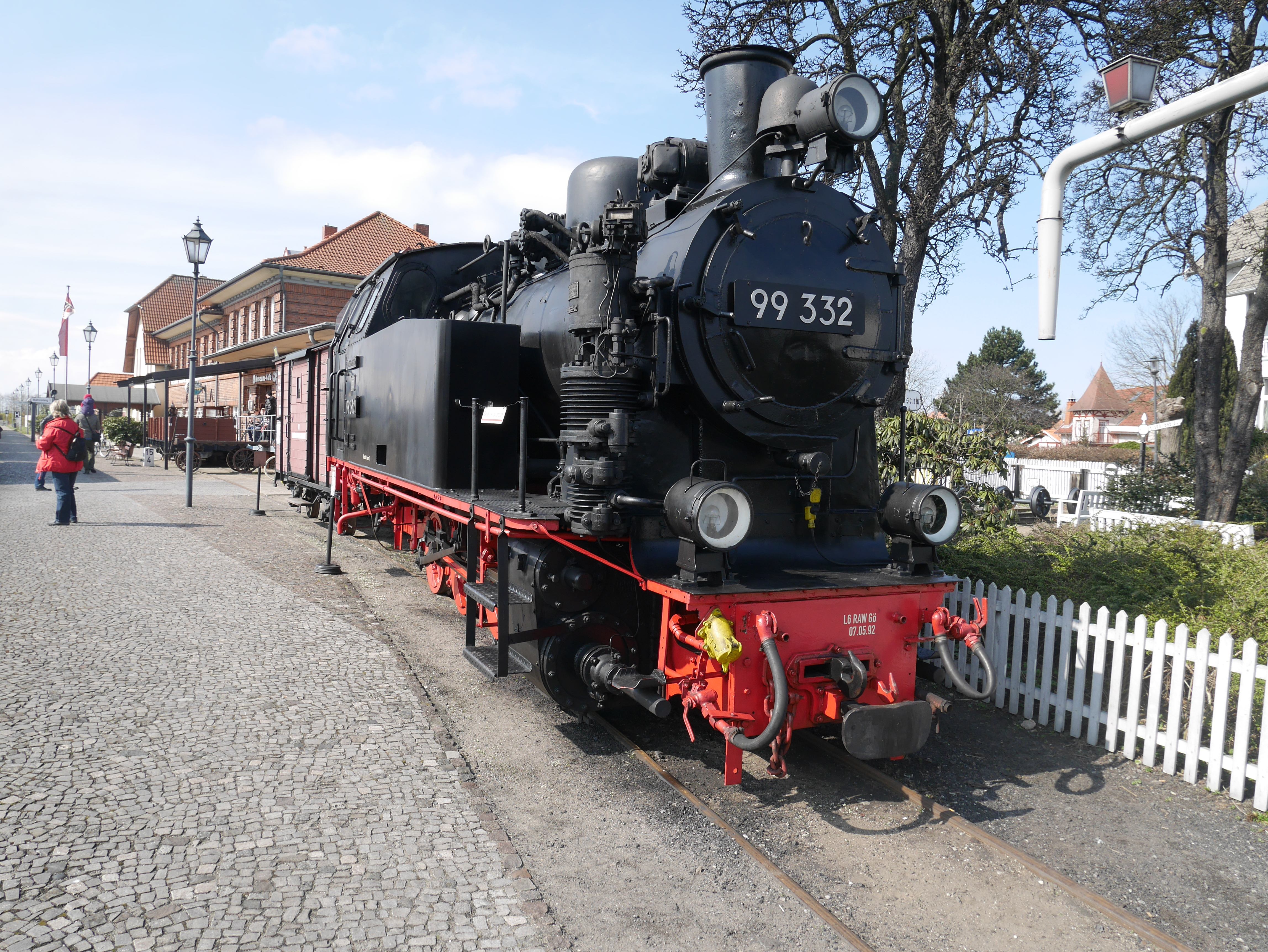 Steam locomotive DR Class 99 of the Deutsche Reichsbahn in Bad Kühlungsborn West station.